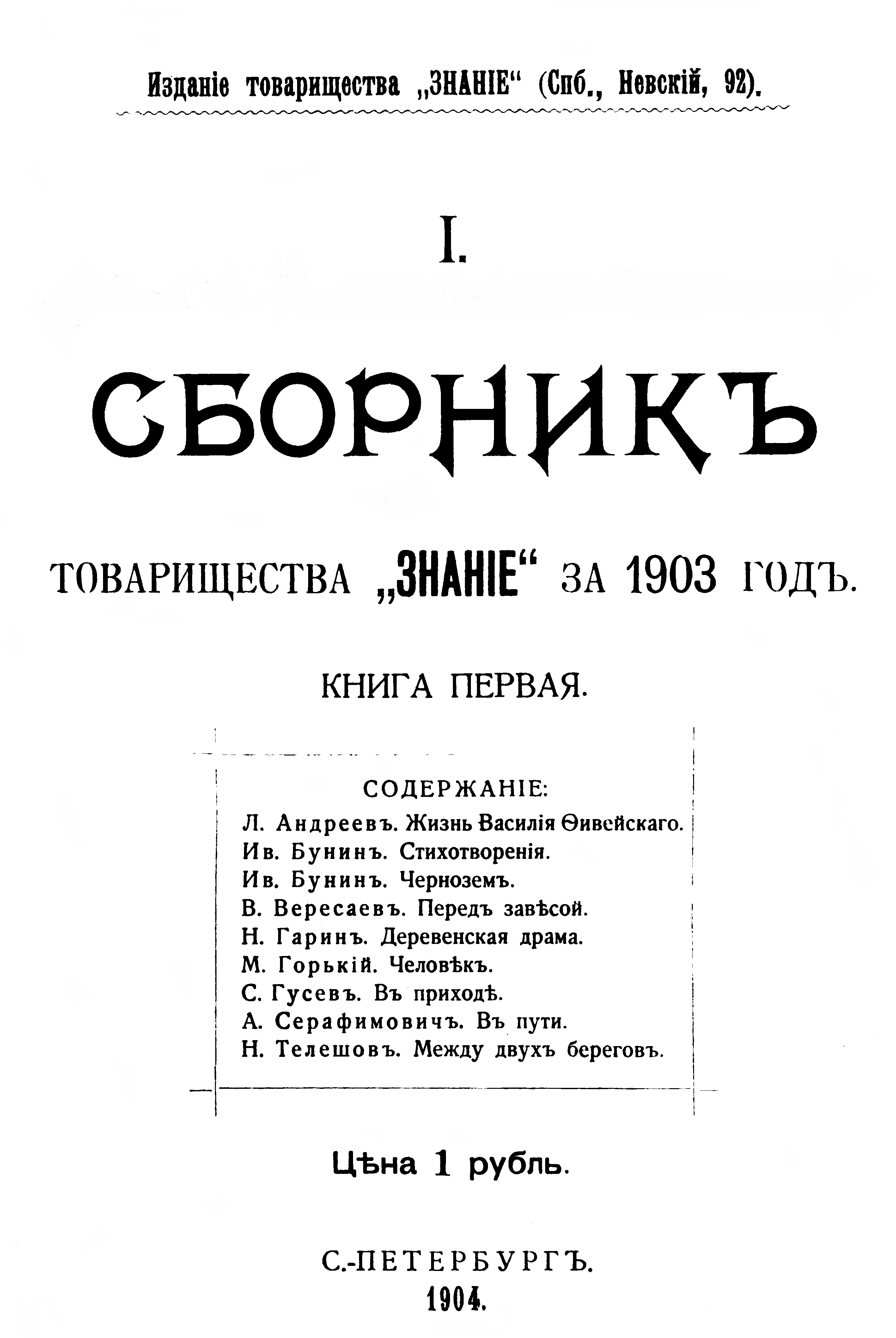 Title page of the first volume of the Znanie collections.